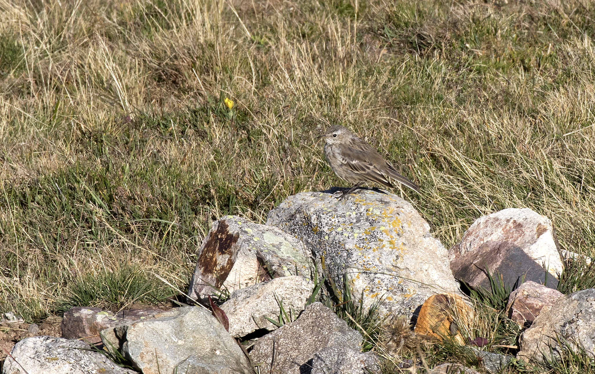 Water Pipit (Anthus spinoletta). Eğribel Highland in Dereli - Giresun, Turkey.